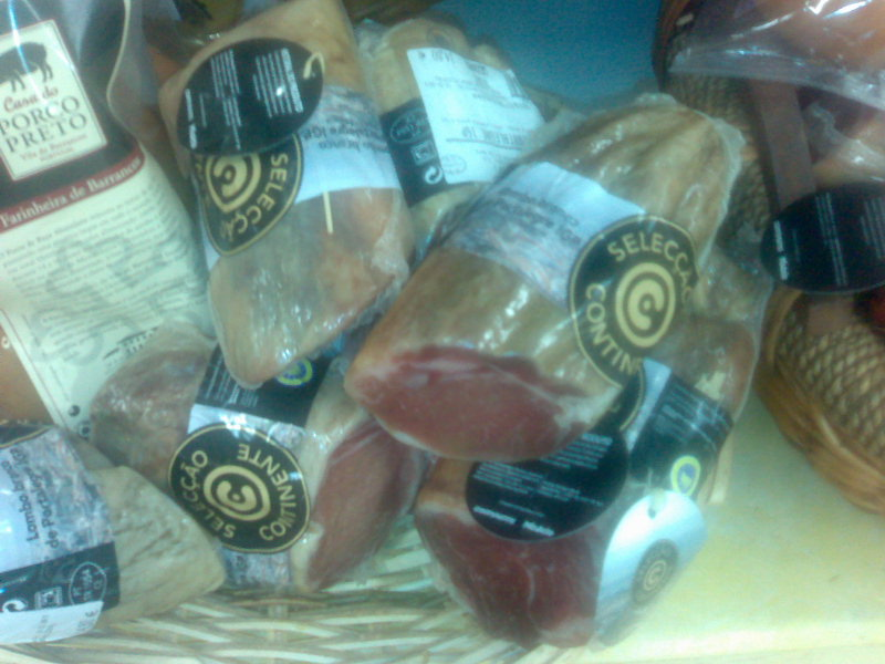 Lombo branco de Portalegre, a sirloin sausage from Portalegre, Portugal.